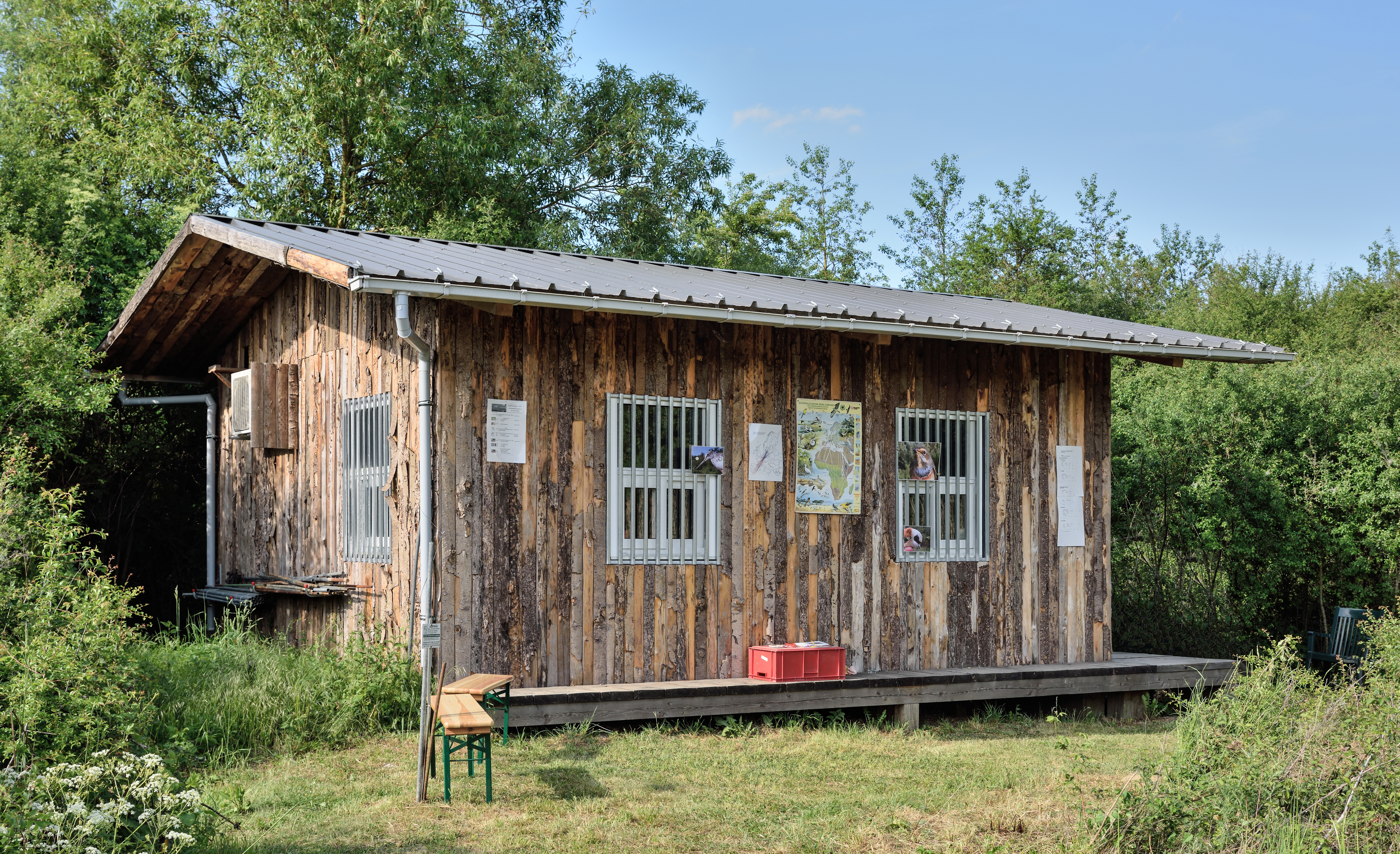 Schifflange, Luxembourg: bird ringing station at Schëfflenger Brill, a nature reserve in the valley of the Alzette. The station was officially inaugurated on May 22 2017.